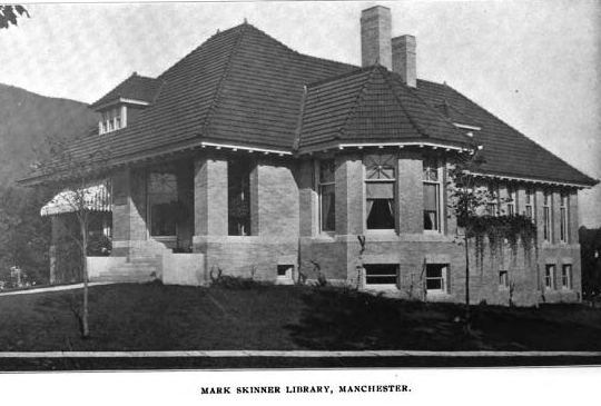 Library in Vermont